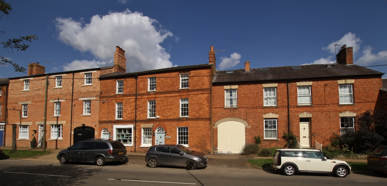 A terrace of houses in High Street, Deddington, Oxfordshire, seen from west-southwest. From left to right: Windermere House, Coniston House and Roseleigh. Roseleigh is 19th-century. Windermere and Coniston may be late 18th- or early 19th-century. Coniston House (centre left) is Grade II listed.